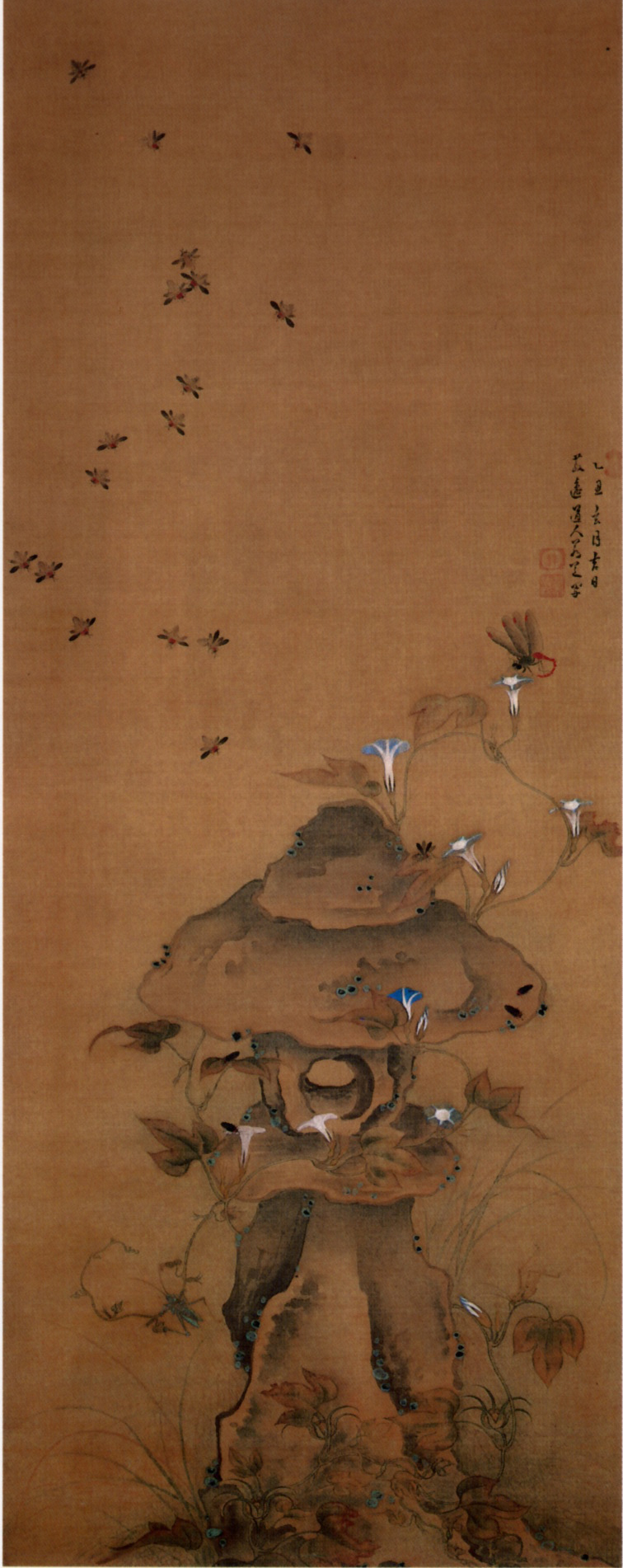 Stone Lantern ,Kawamura Jakushi,color on silk ,Hanging scroll